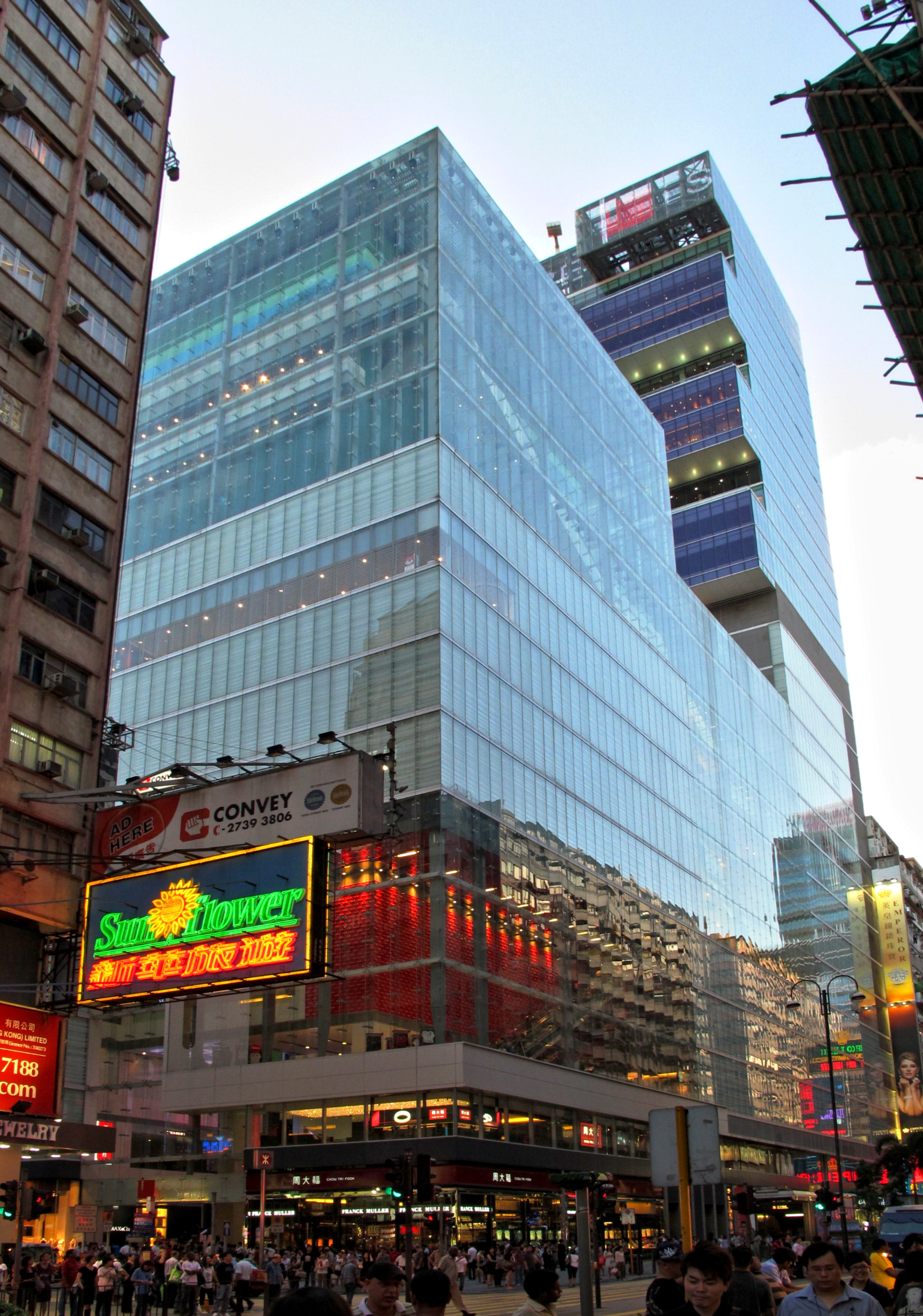 iSQUARE 國際廣場